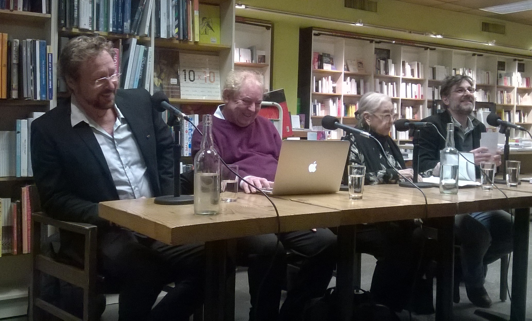 Didier Bigo, Laurence McFalls, Philippe Bonditti & Mariella Pandolfi photographed in Montréal , Québec, Canada at the Olivier Bookstore.